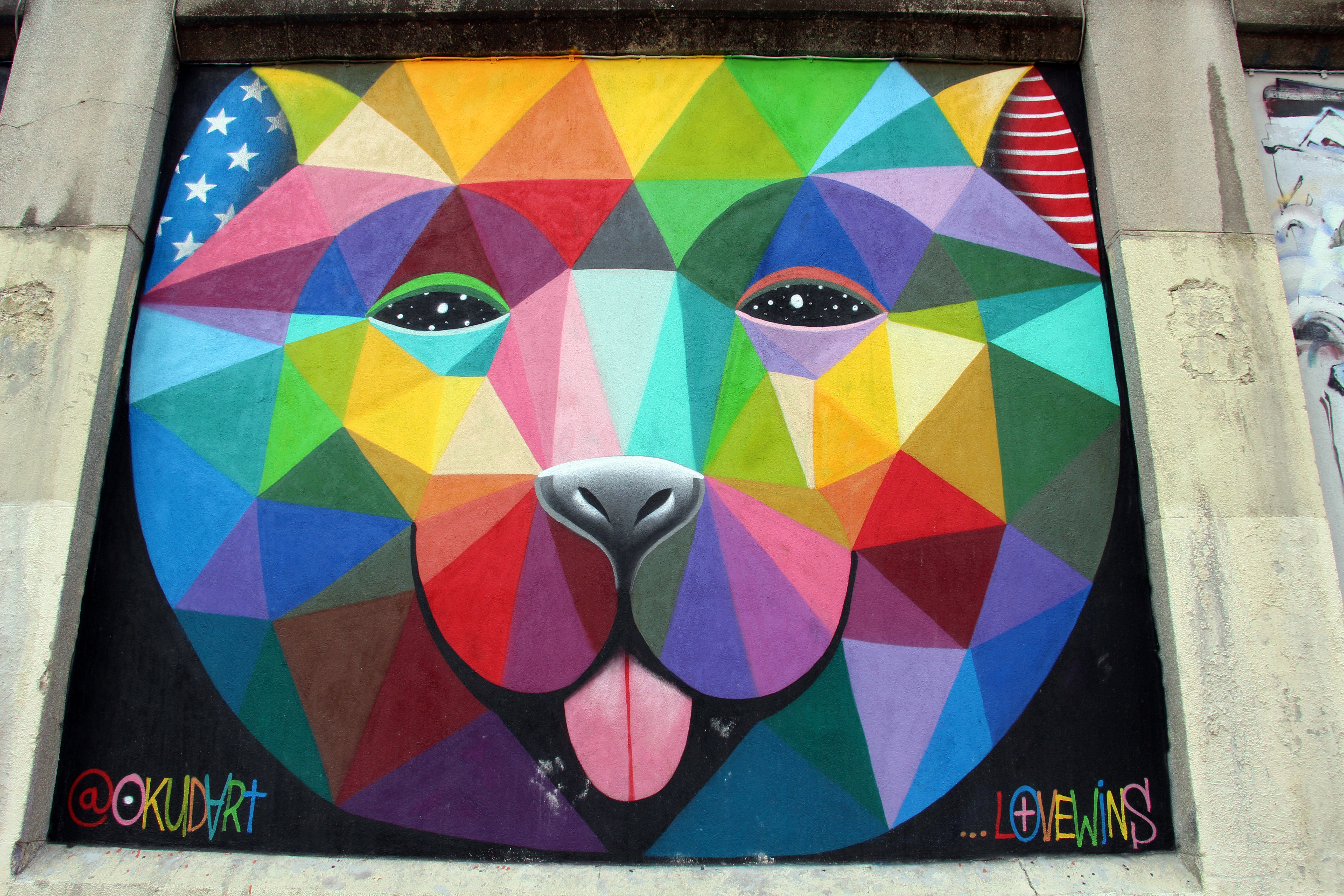 Lavapiés / Calle de Embajadores Street art at the former Tobacco Factory of Embajadores.